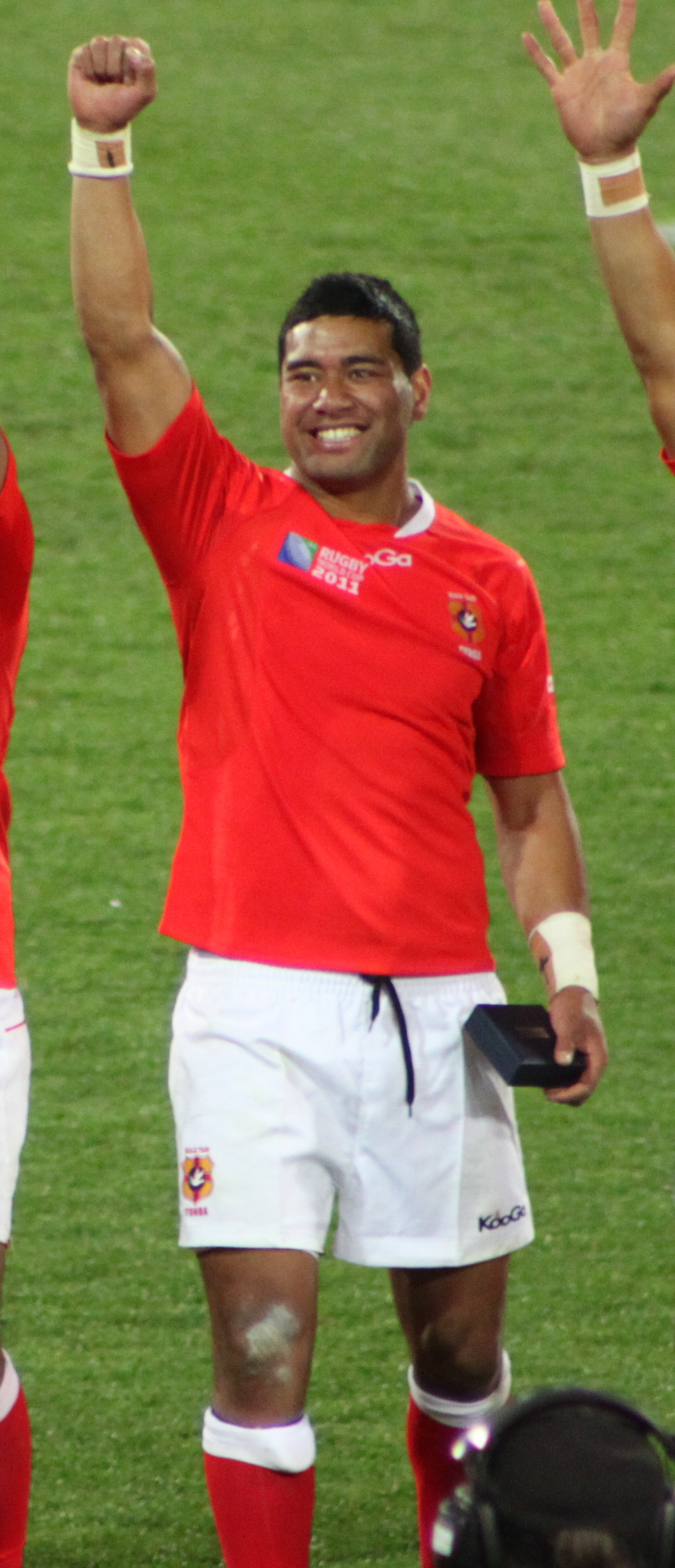 Tongan rugby union player Siale Piutau after 2011 Rugby World Cup match against France.